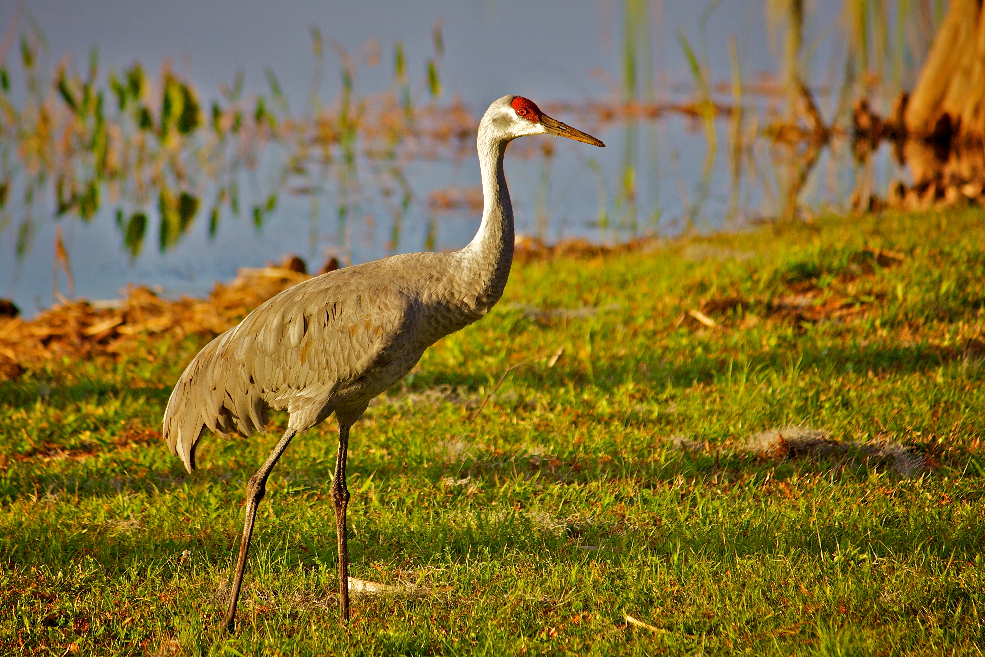 Sandhill Crane (Grus canadensis pratensis) at Everglades Headwaters National Wildlife Refuge Credit: Keenan Adams (USFWS)